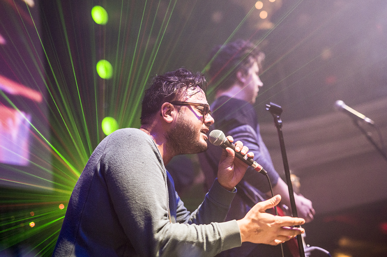 Lushlife (Raj Haldar) performing at Johnny Brenda's in Philadelphia